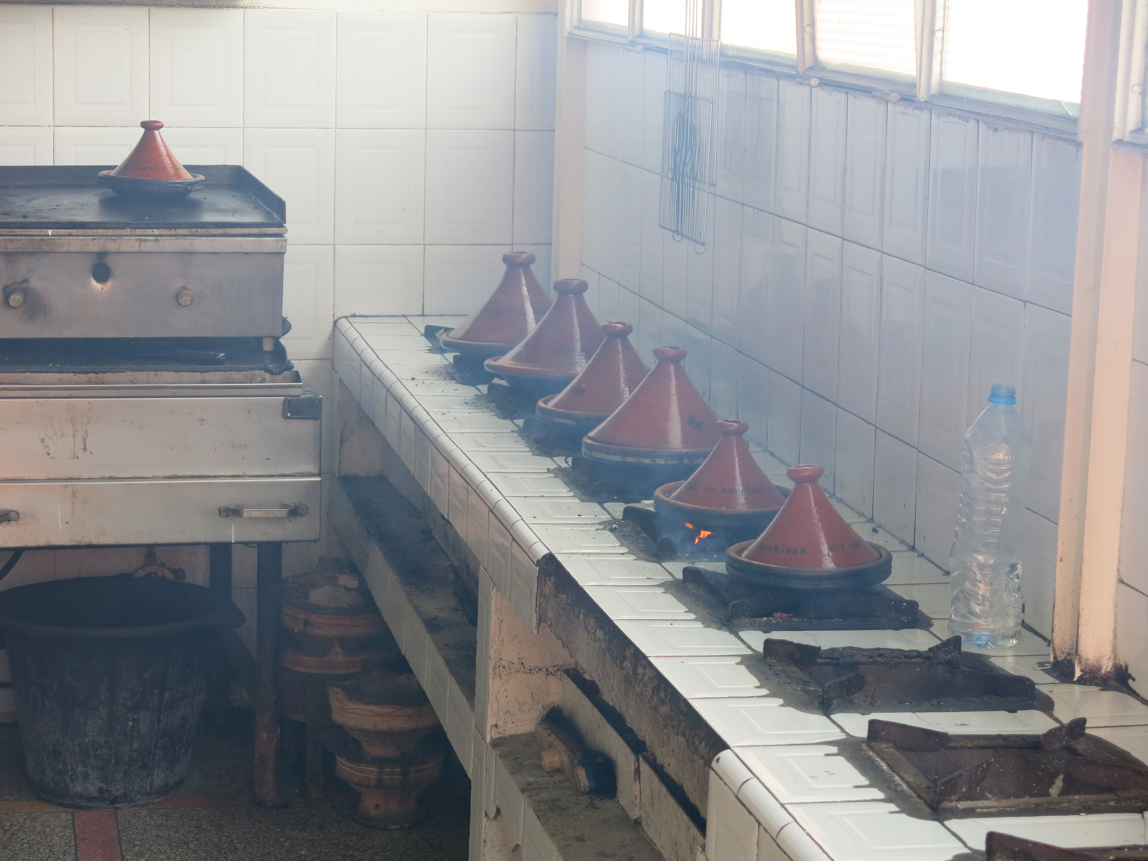 Tajine (french Tagine) preparing in café in Aït Baha, Morocco